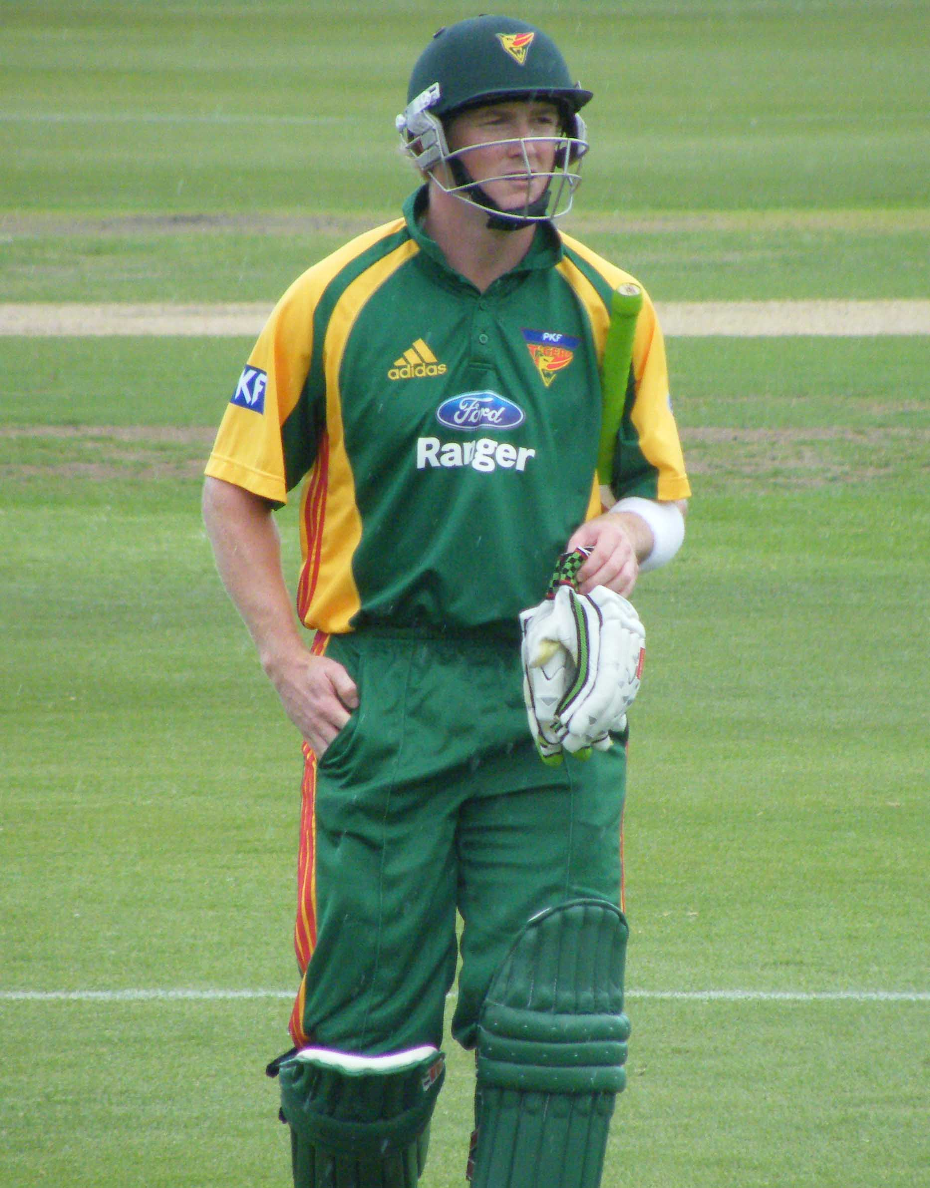 Tasmanian Cricketer George Bailey - NSW v Tasmania, Hurstville Oval. Saturday 29 November 2008.